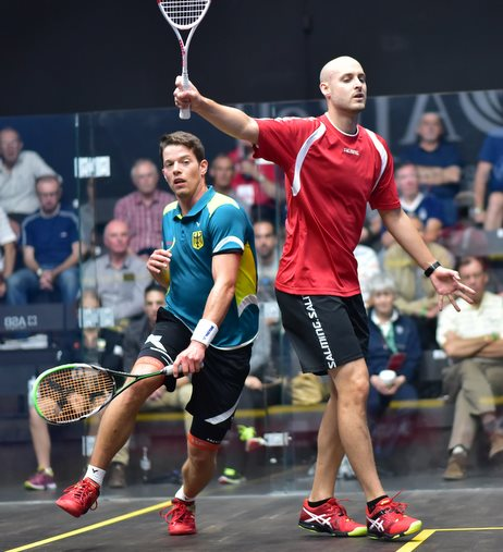 Raphael Kandra (left) against Nicolas Müller (right) during the Individual European Squash Championships 2017